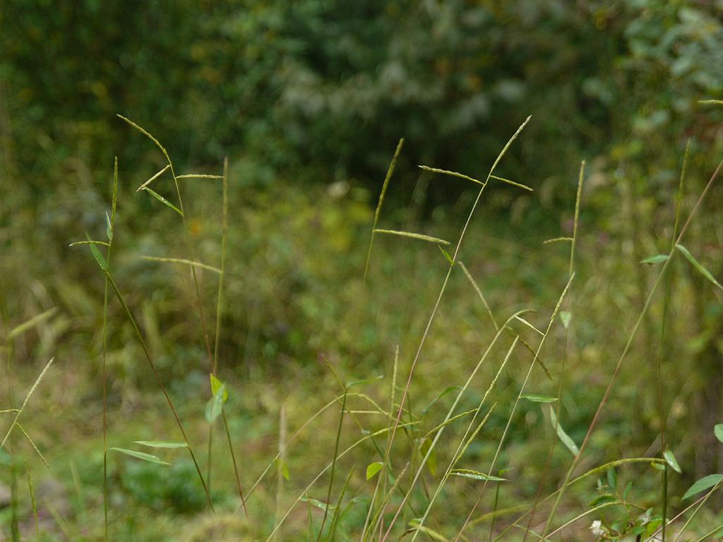 Microstegium vimineum (Poaceae) アシボソ(イネ科)